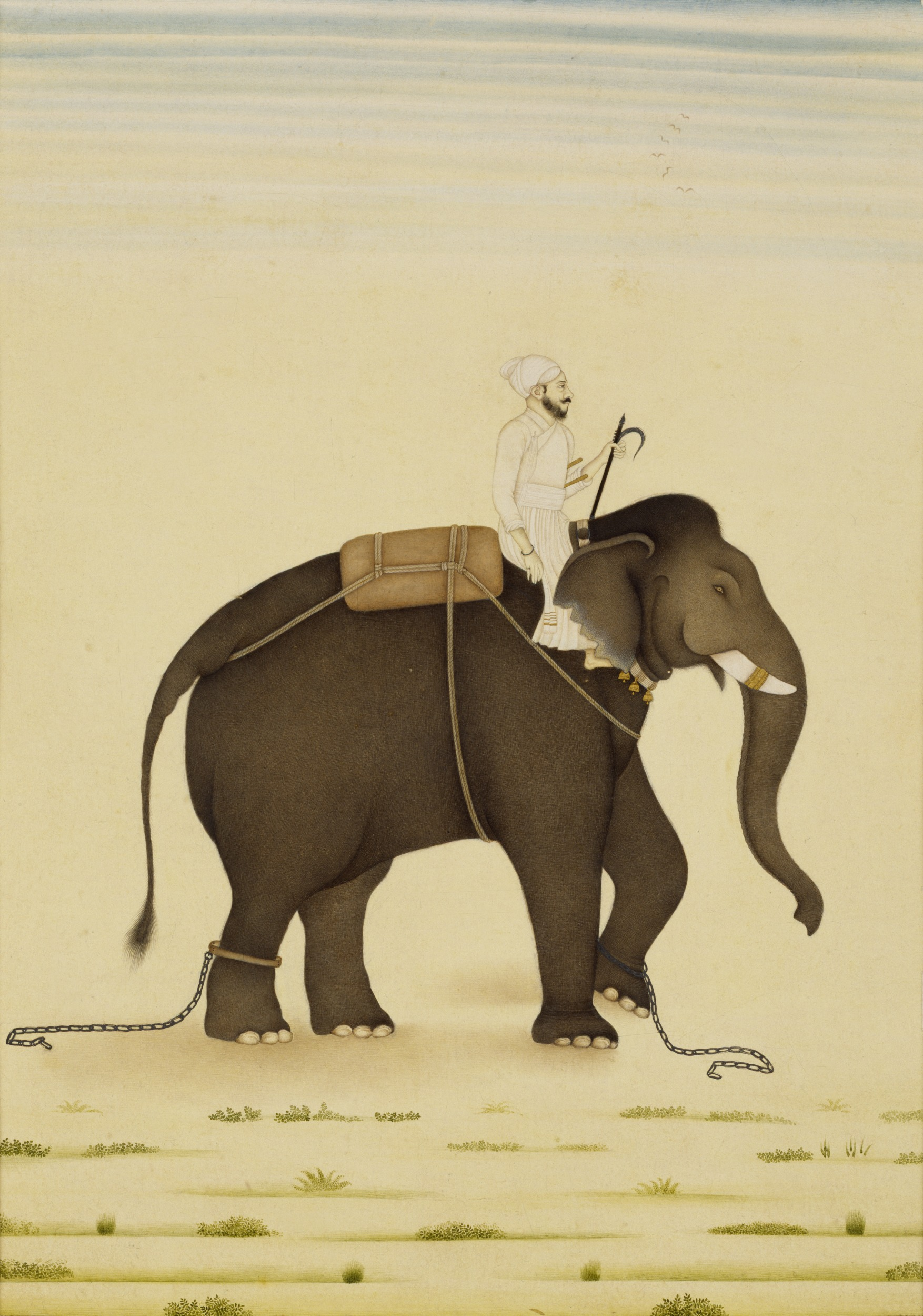 Mahout on an elephant; gouache on paper; Murshidabad, India; 18th century.